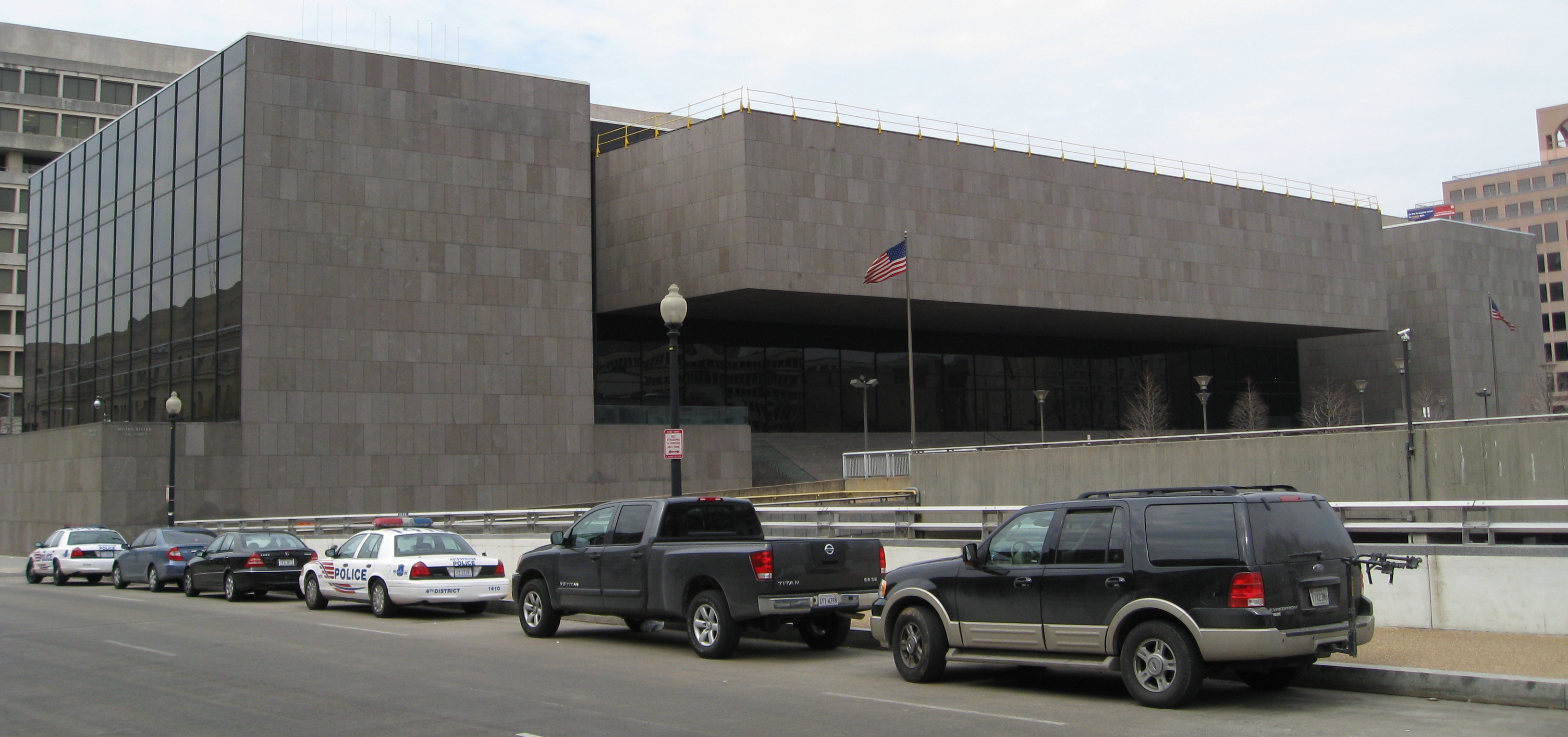 US Tax Court, Washington, DC